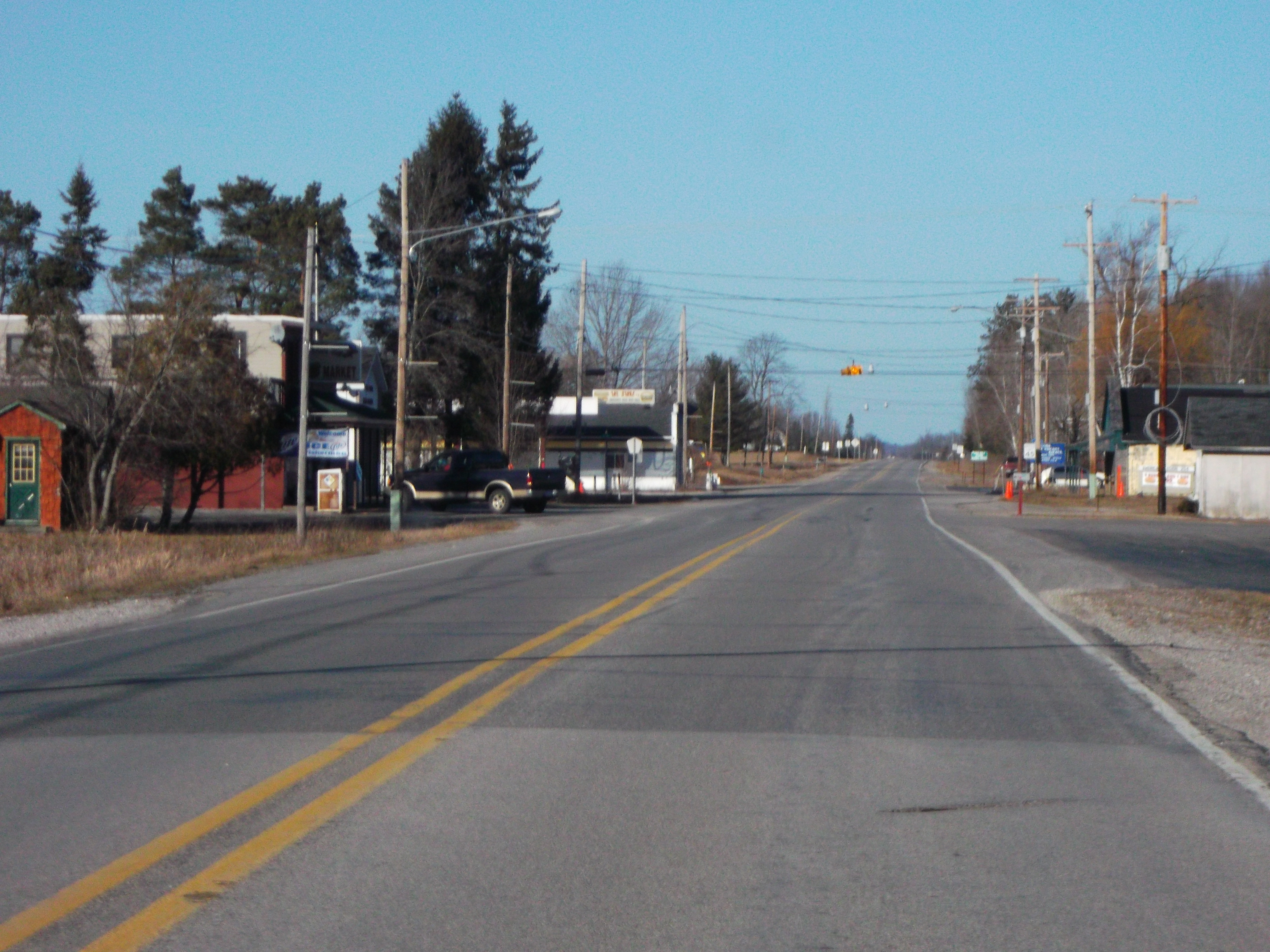 F-41 in Mikado, Michigan